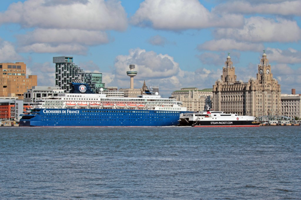 MV Horizon and Manannan, Liverpool Cruise Terminal